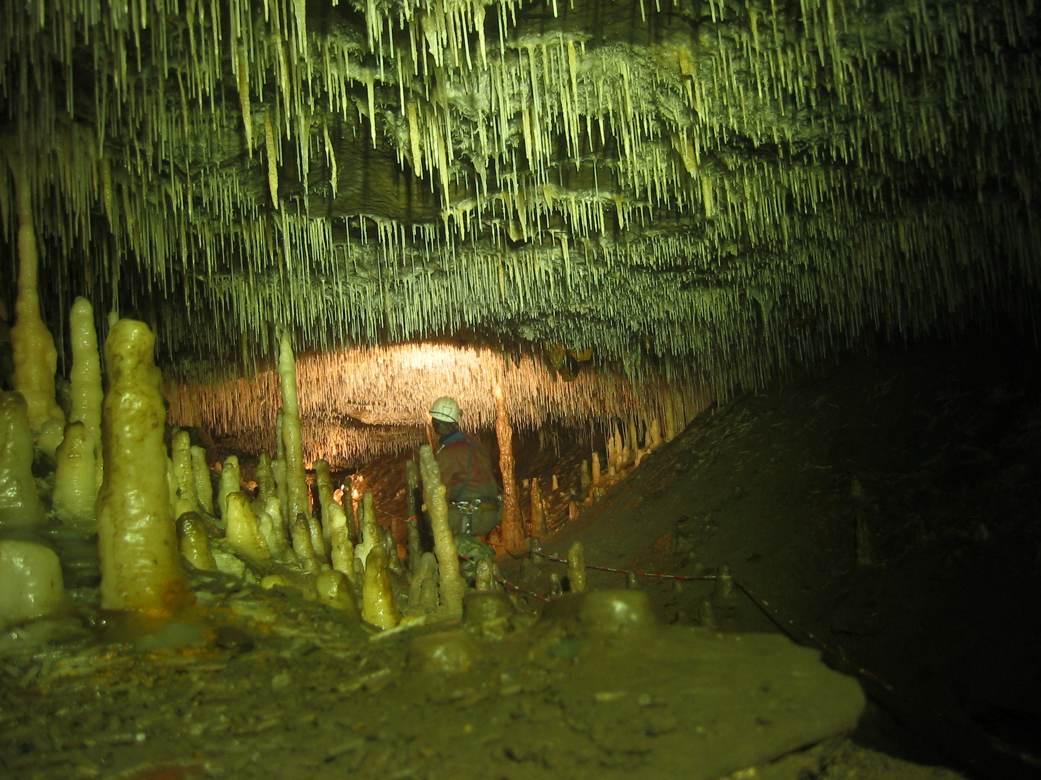 Easter Grotto in Easgill